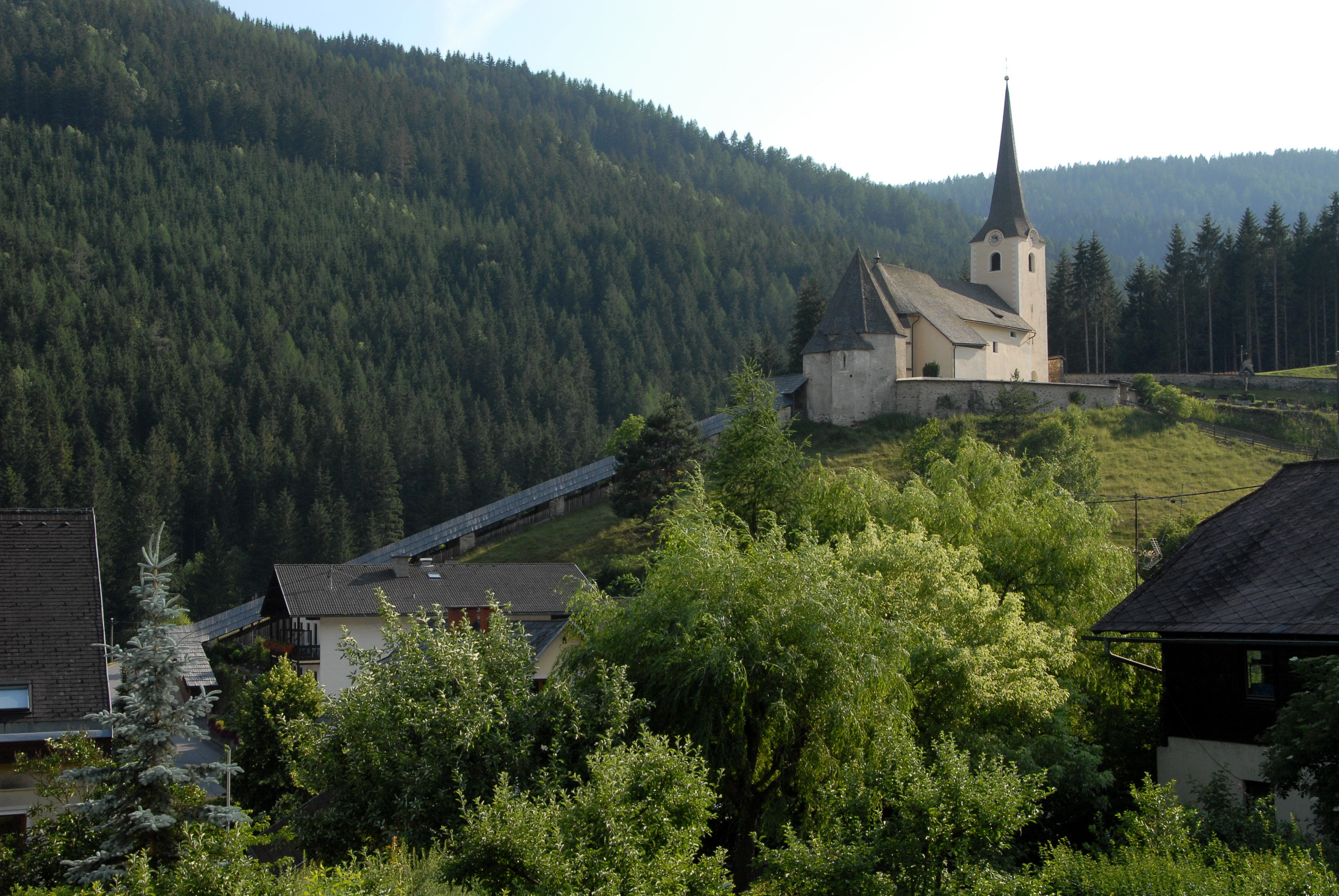 Roofed staircase to the parish church Saint Jakob major at Deutsch-Griffen, municipality Deutsch-Griffen, district Sankt Veit an der Glan, Carinthia, Austria, EU